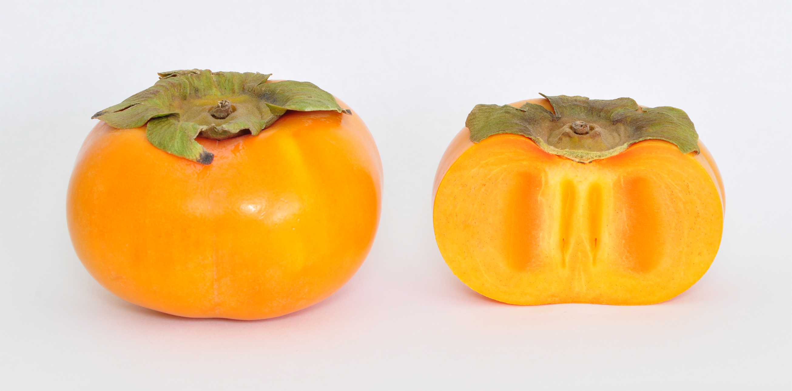 A whole Jiro Persimmon (Diospyros Kaki) and a sliced one.